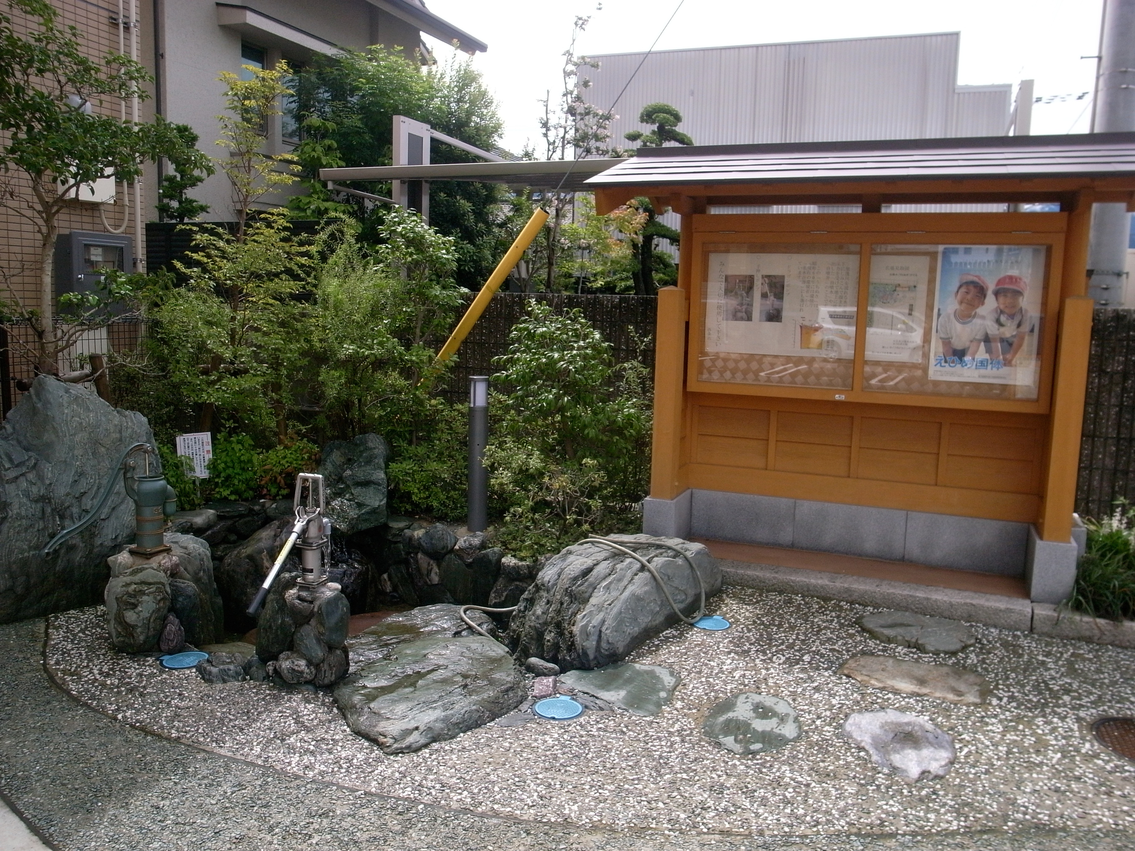 A spring in Saijyo-shi Ehime pref, Japan.